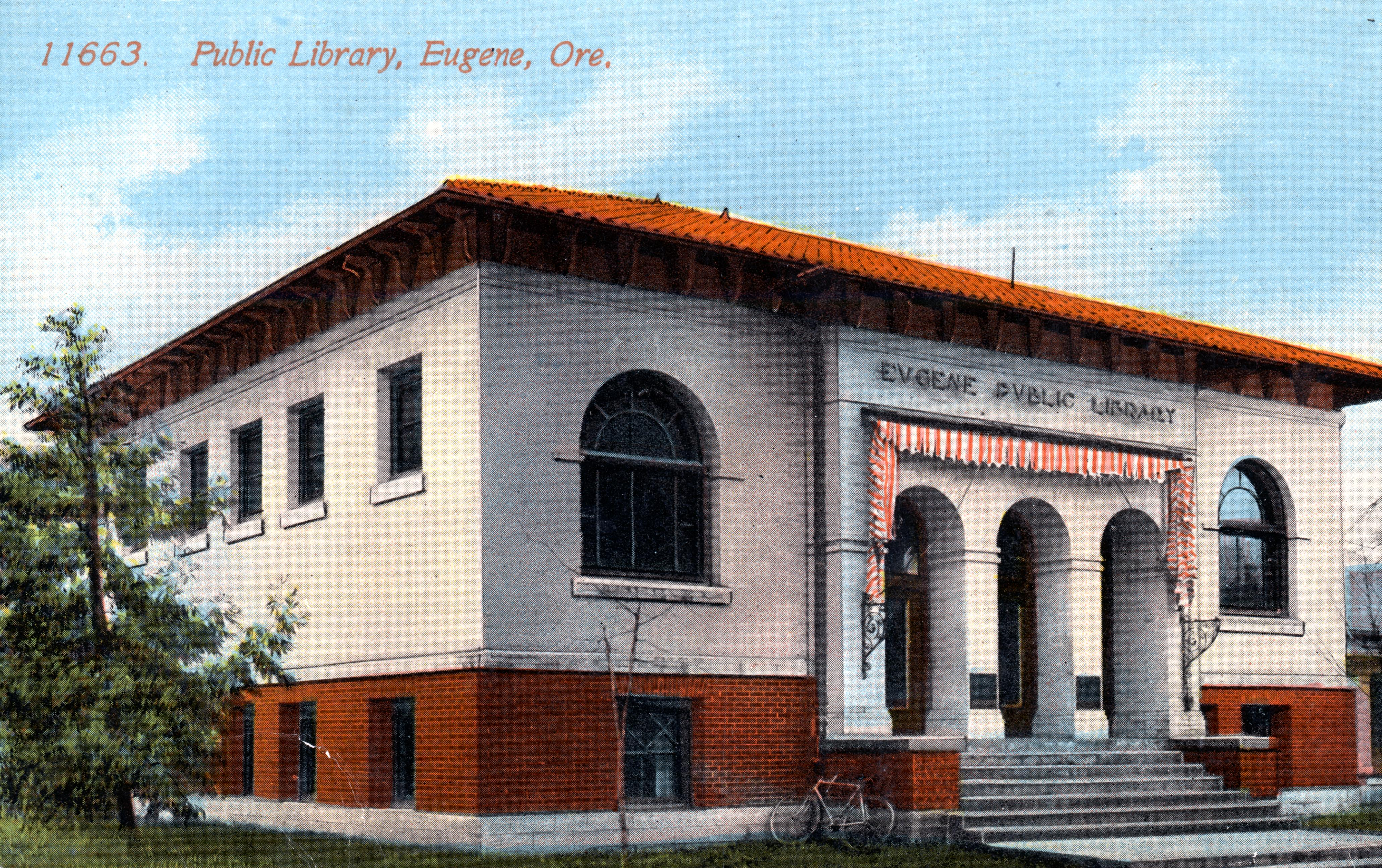 Eugene Public Library, circa 1910 Original Collection: Gerald W. Williams Collection, 1855-2007 Item Number: WilliamsG: ES_library_color You can find this image by searching for the item number by clicking here. Want more? You can find more digital resources online. We're happy for you to share this digital image within the spirit of The Commons; however, certain restrictions on high quality reproductions of the original physical version may apply. To read more about what “no known restrictions” means, please visit the Special Collections & Archives website, or contact staff at the OSU Special Collections & Archives Research Center for details.